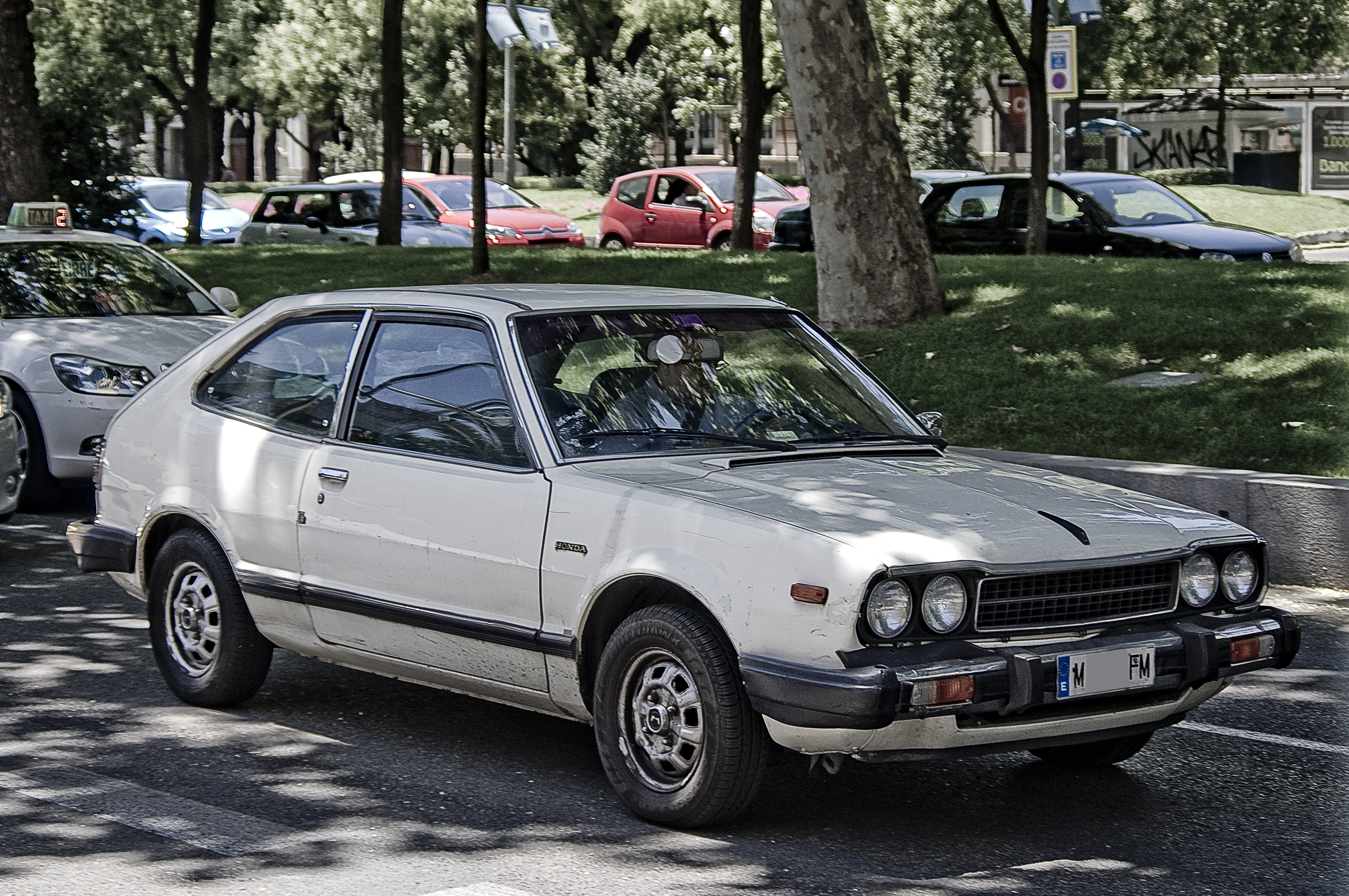 First time I see and spot one of these. So cool! why on Earth can't cars like these be more common in here...? oh well...